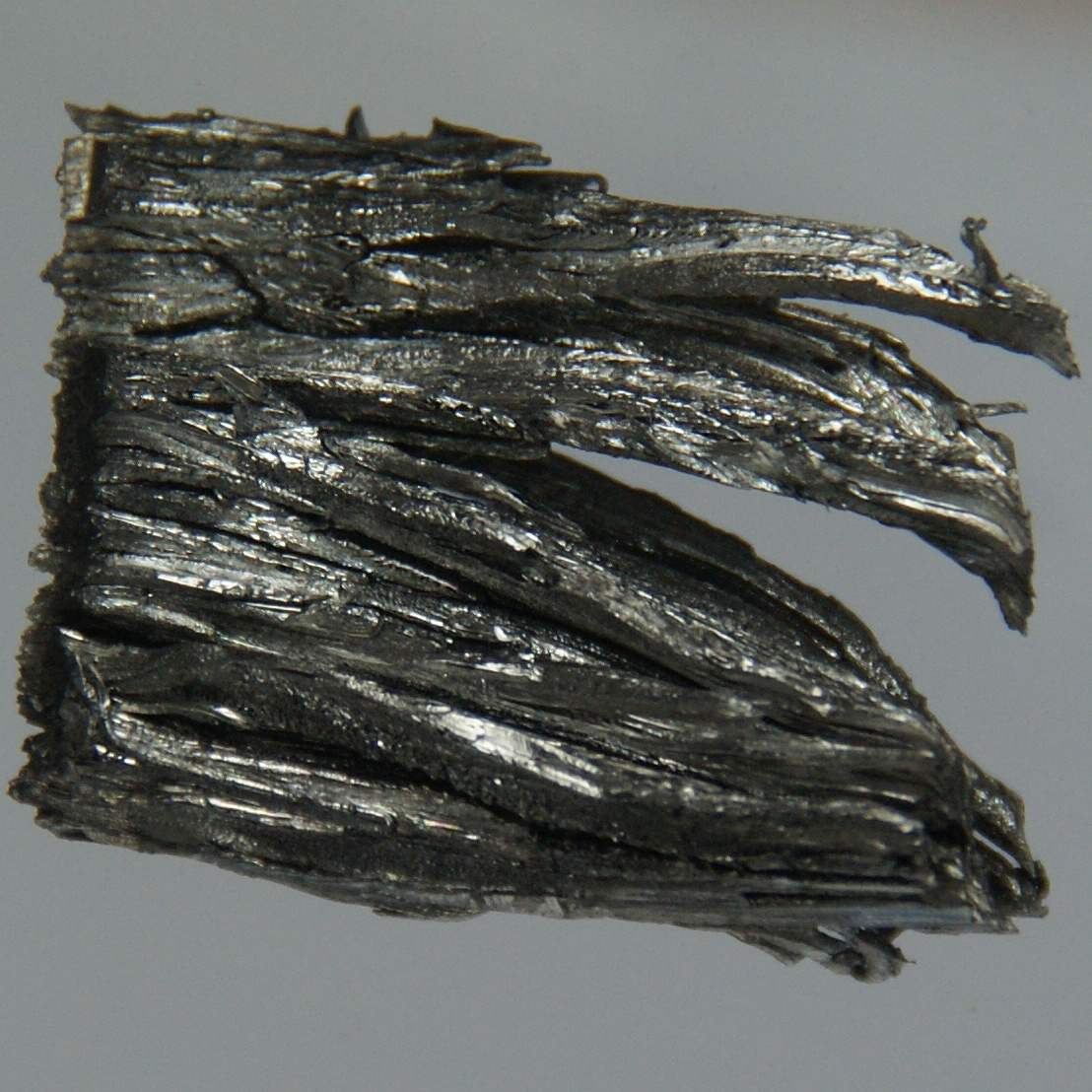 Pure Dysprosium dendrites.